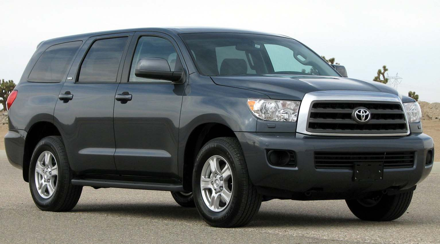 2008 Toyota Sequoia photographed in USA.